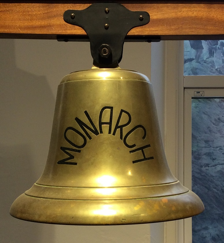 The ship's bell from the fourth cable ship called Monarch, here seen on display at Porthcurno Telegraph Museum in January, 2019.